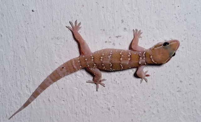 Hemidactylus triedrus, gecko, India